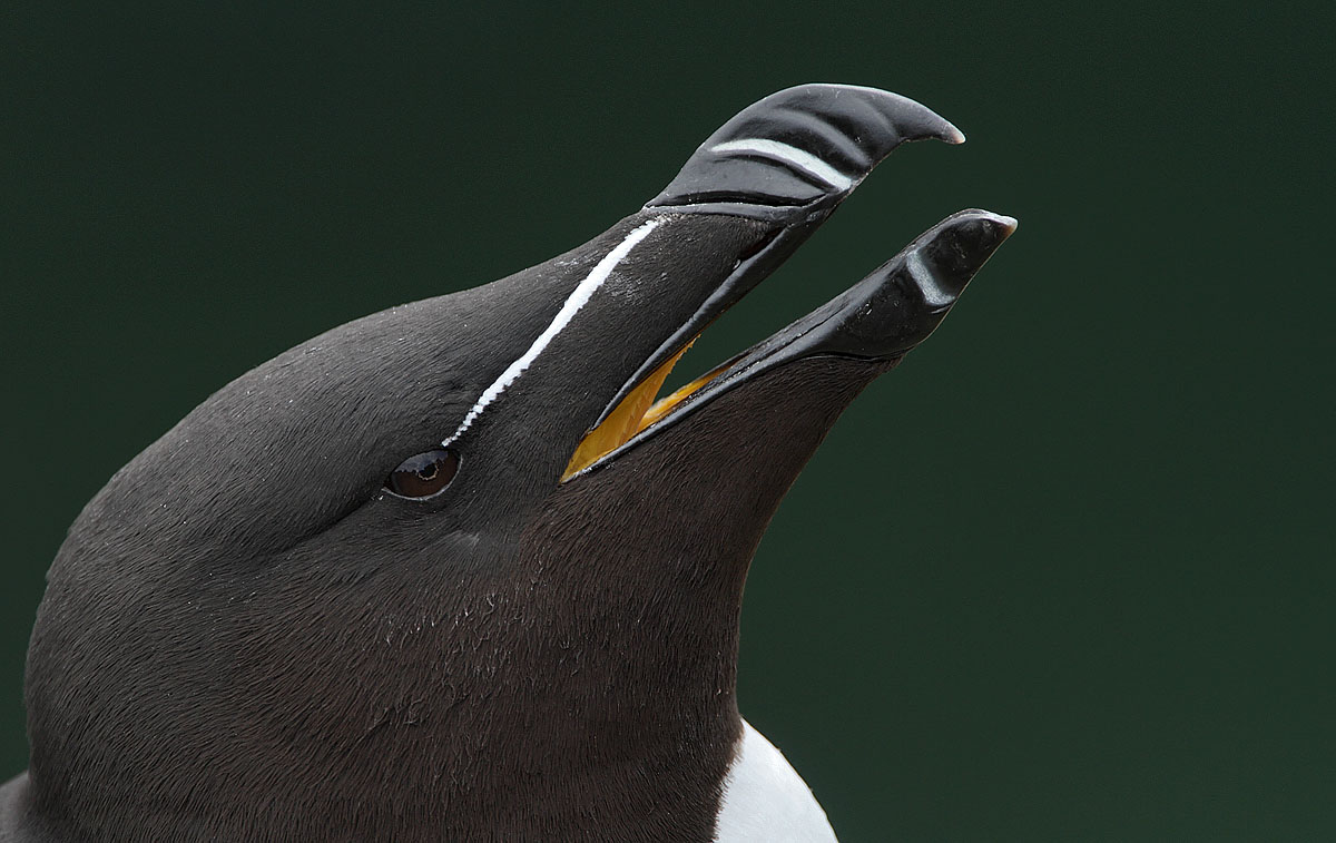 Headshot of a breeding plumage Razorbill. When viewing as a large image note the barbs on the palate which help to hold small slippery fish. Image taken on the Isle of May, Firth of Forth, Fife, Scotland